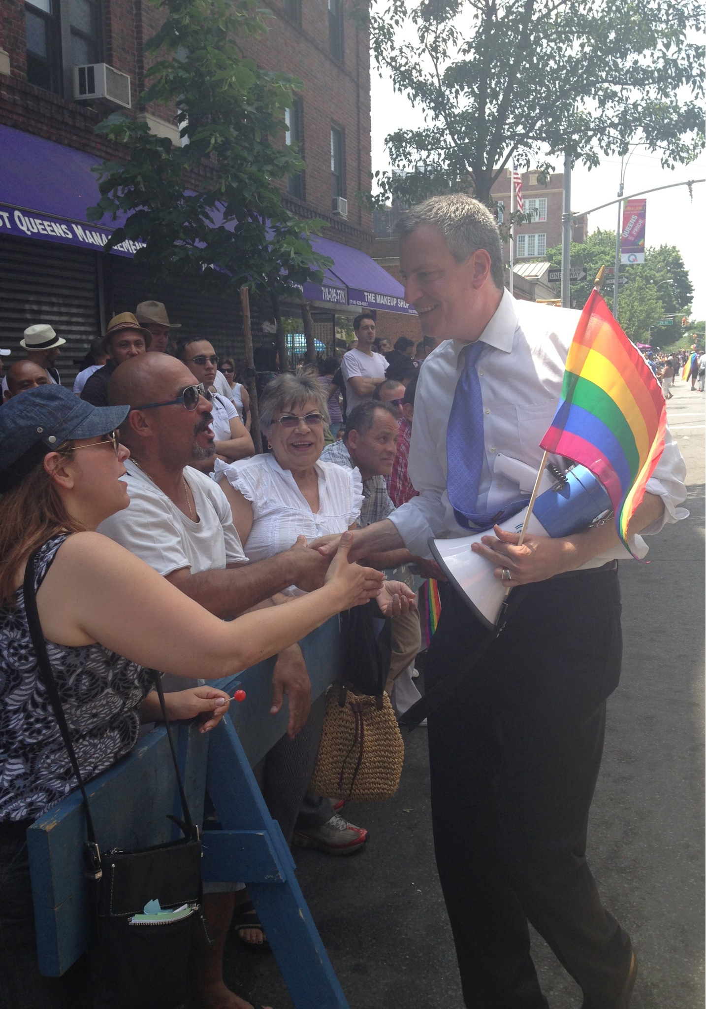 Jackson Heights, Queens